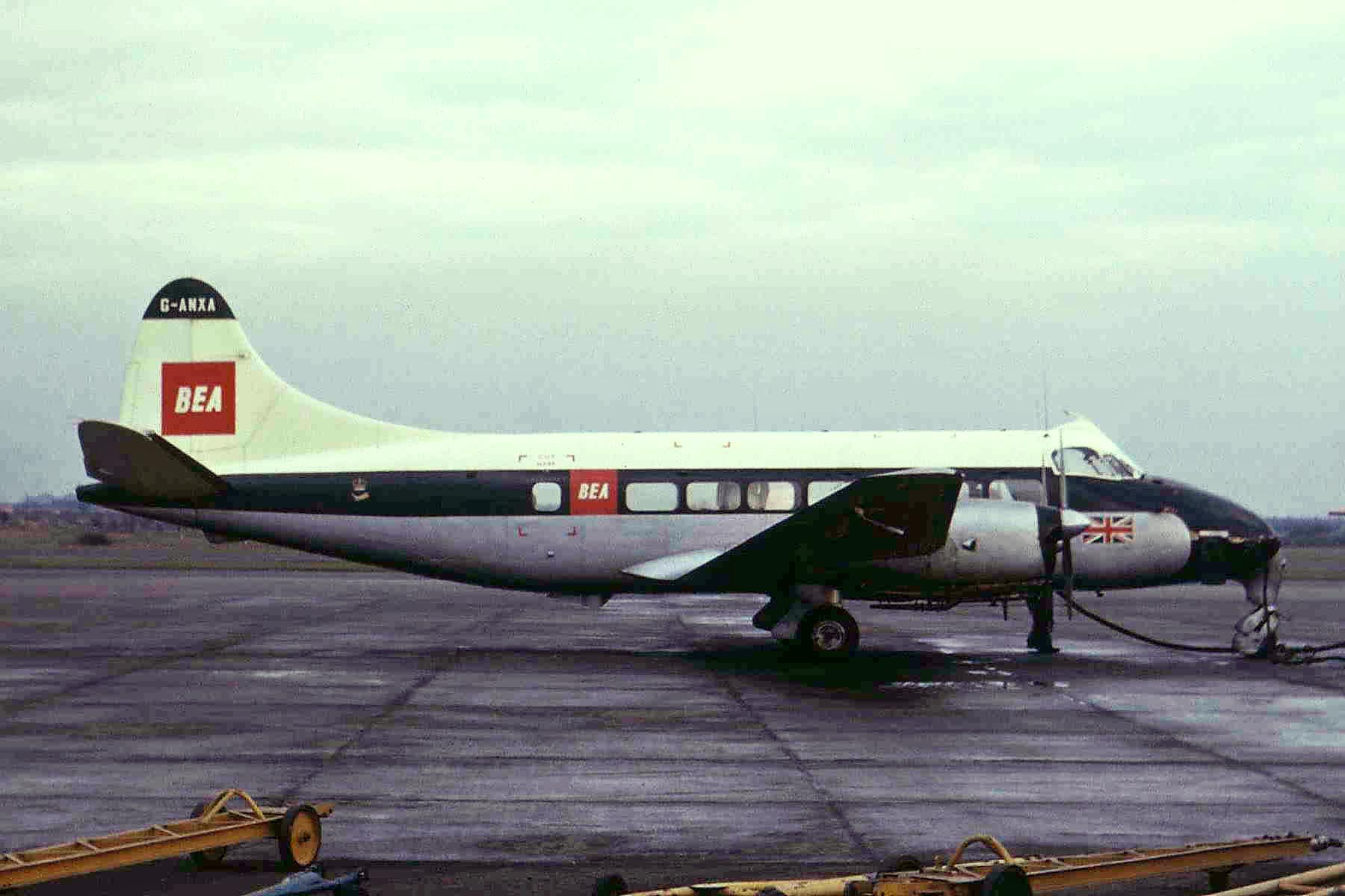 A picture of an airplane (name of it is on the file name).